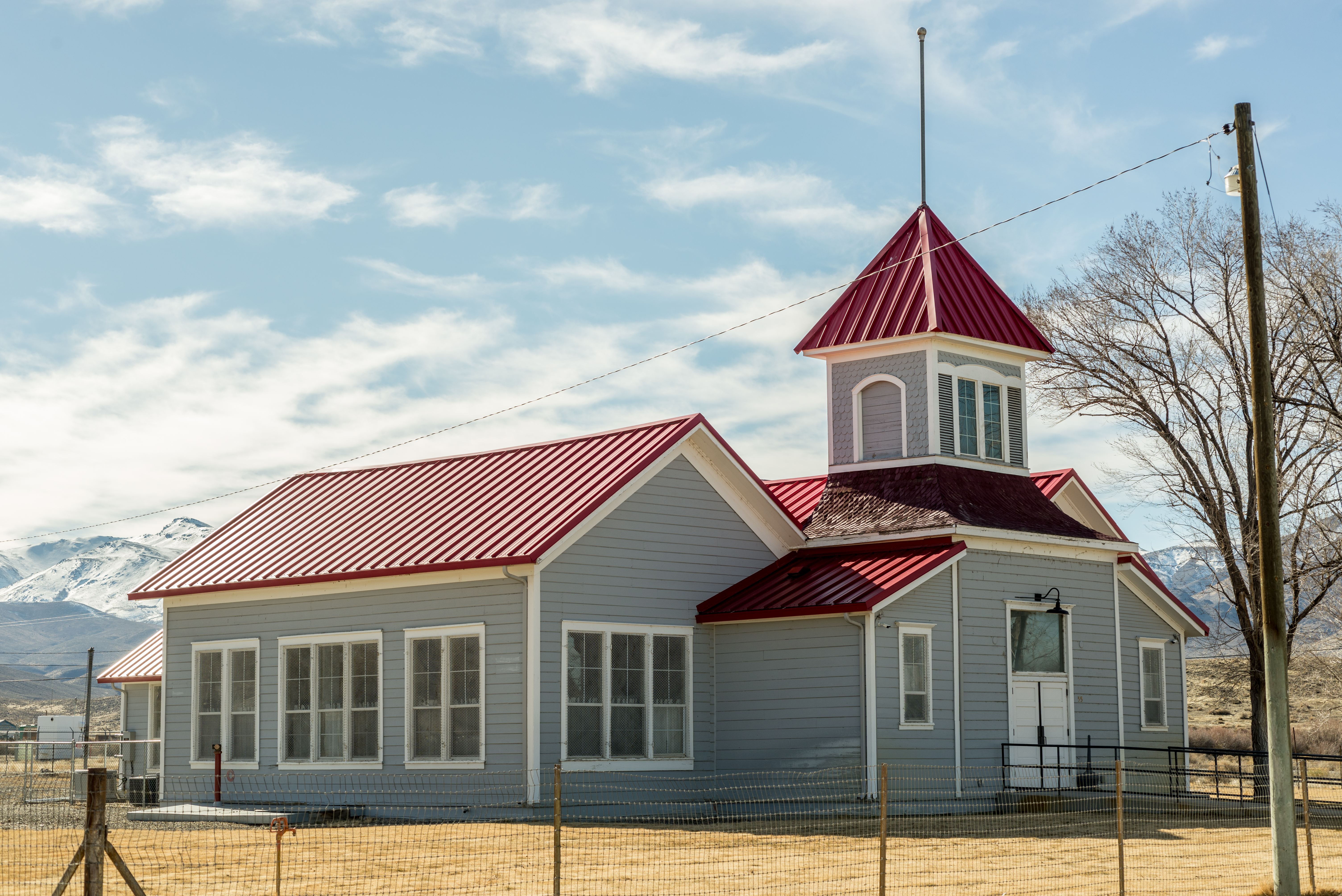 This schoolhouse is no longer used for education, but is still used for community gatherings, a small museum and is rented out for wedding receptions and the like.